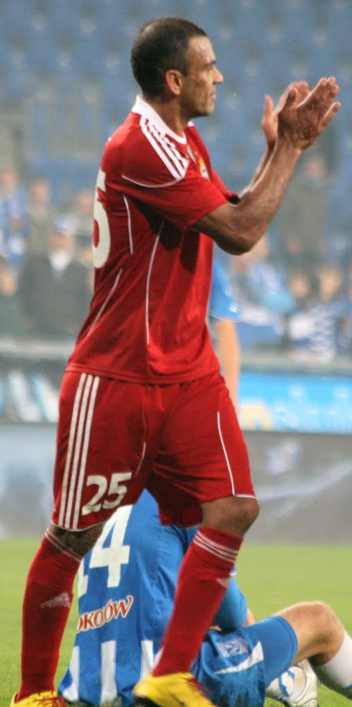 Cléber Guedes de Lima